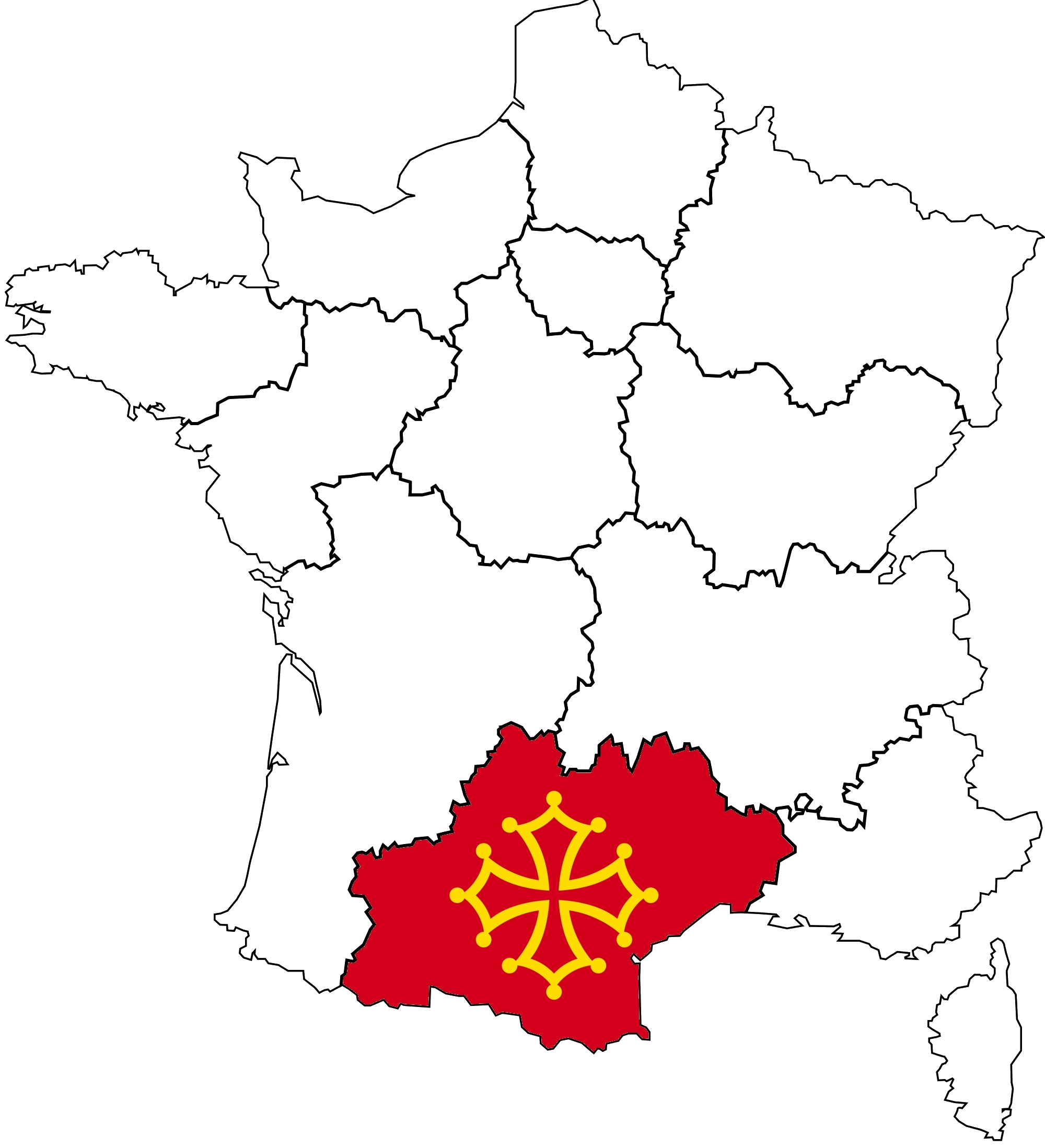 In May 2016, "Bastir Occitania" activists are mobilized for the name "Occitanie" for the administrative region born of the merger between "Languedoc-Roussillon" (Montpellier) and "Midi-Pyrenées" (Toulouse).